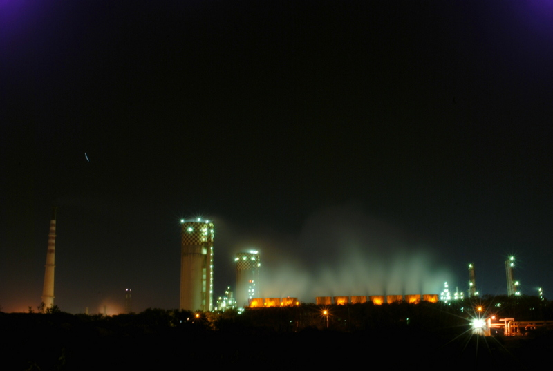 NFCL(Nagarjuna Fertilizers and Chemicals Limited) The two large towers are an important landmark, they can be seen from almost every location in Kakinada city.